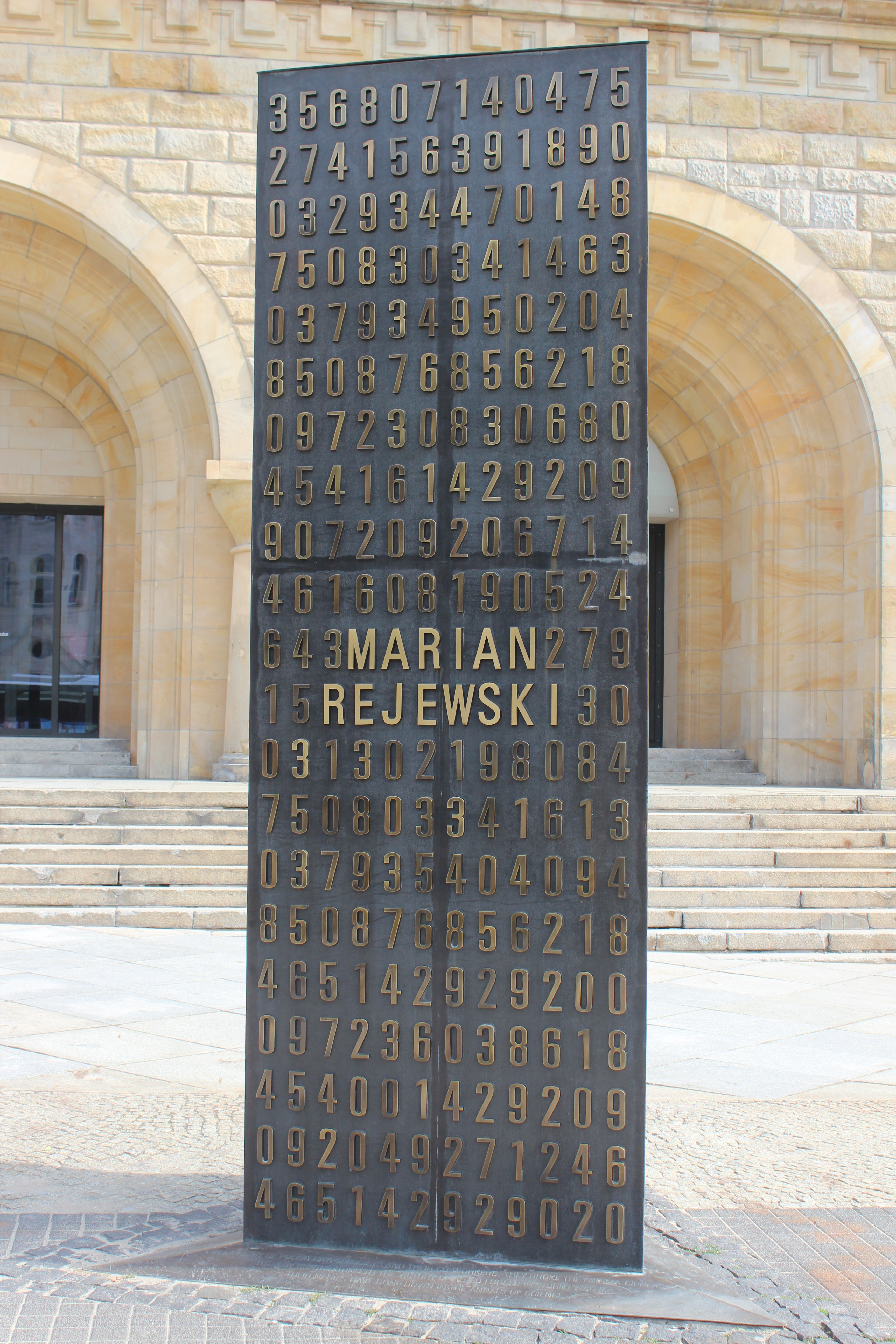 Poznań monument (center) to Polish cryptologists whose breaking of Germany's Enigma machine ciphers